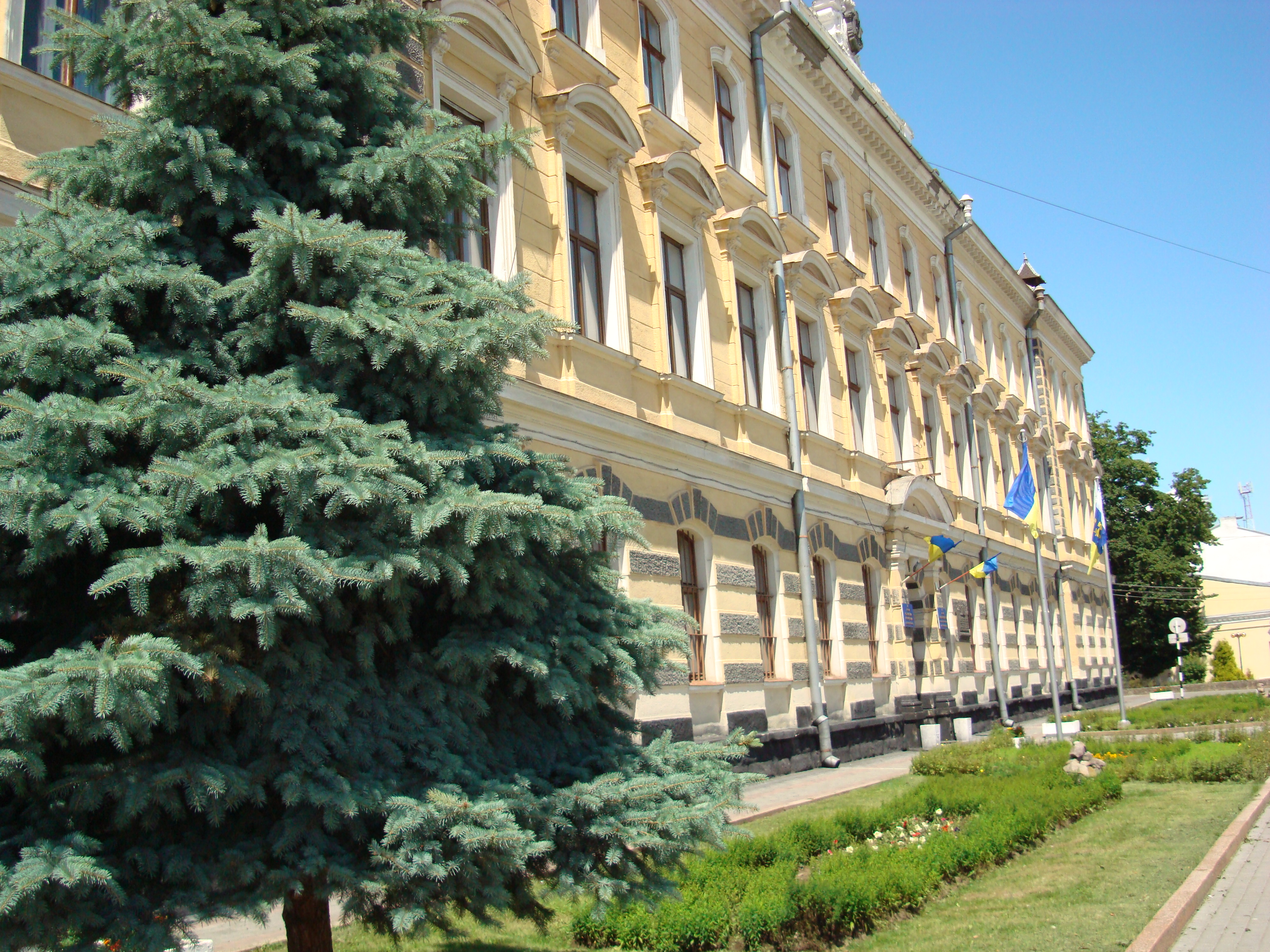 Stryi considers to be the first city in Ukraine to bear the blue over yellow Ukrainian National Flag when it was hoisted on the flagpole of the Town Hall on March 14, 1990 before the fall of the Soviet regime.